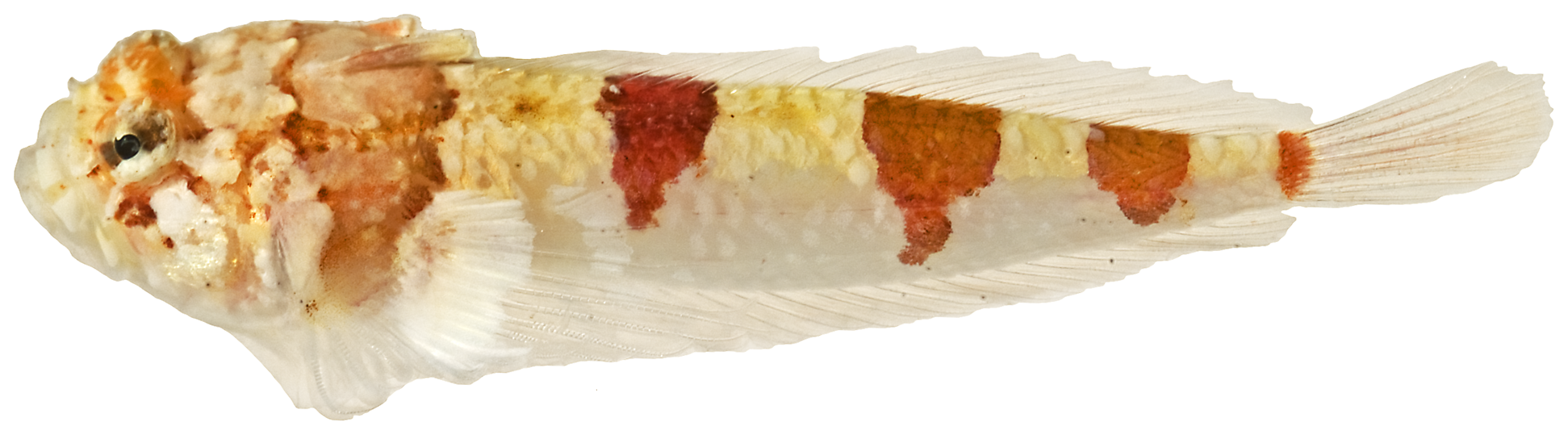 Platygillellus rubrocinctus (Longley, 1934)—saddle stargazer, 24.1 mm SL, adult. Photo by JT Williams.